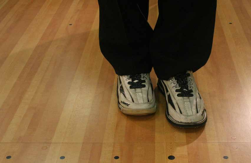 bowling